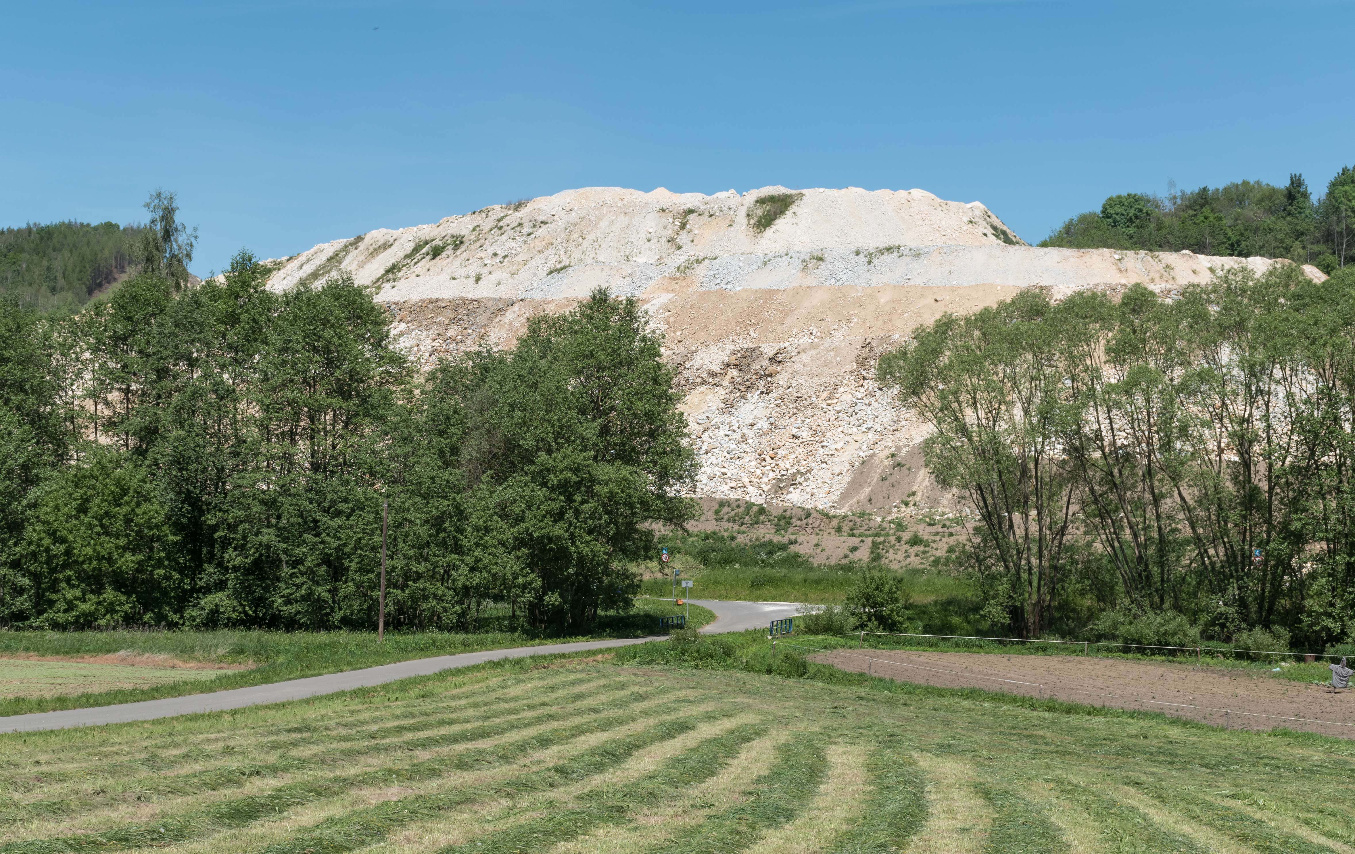 Romanowo mine of dolomite in Romanowo